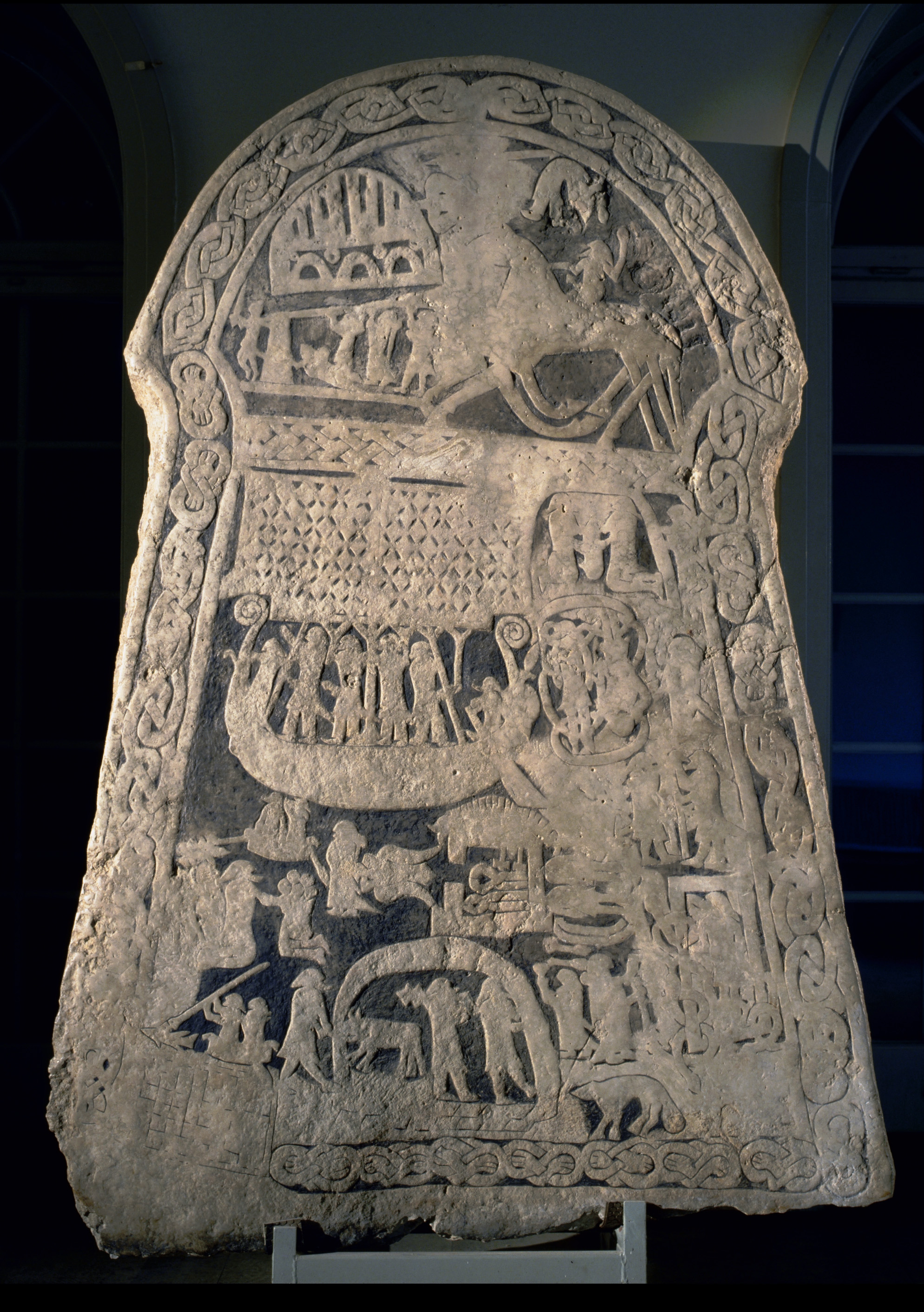 Ancient picture stone showing figures from Norse mythology. From Ardre Parish, Gotland, Sweden. Now at the National Historical Museum in Stockholm, Sweden,museum number SHM 11118.